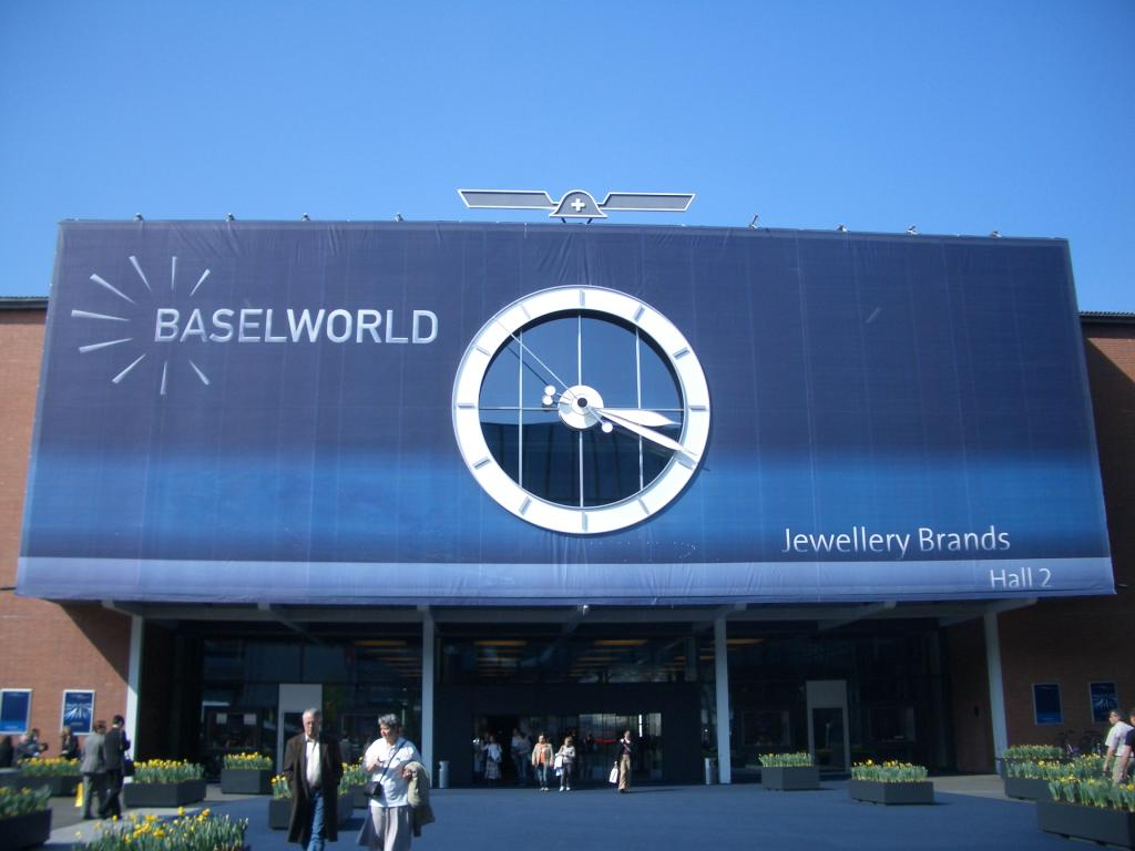 The hall 2 of the trade fair Basel while the Baselworld 2005, the Watches- and Jewellery trade fair.